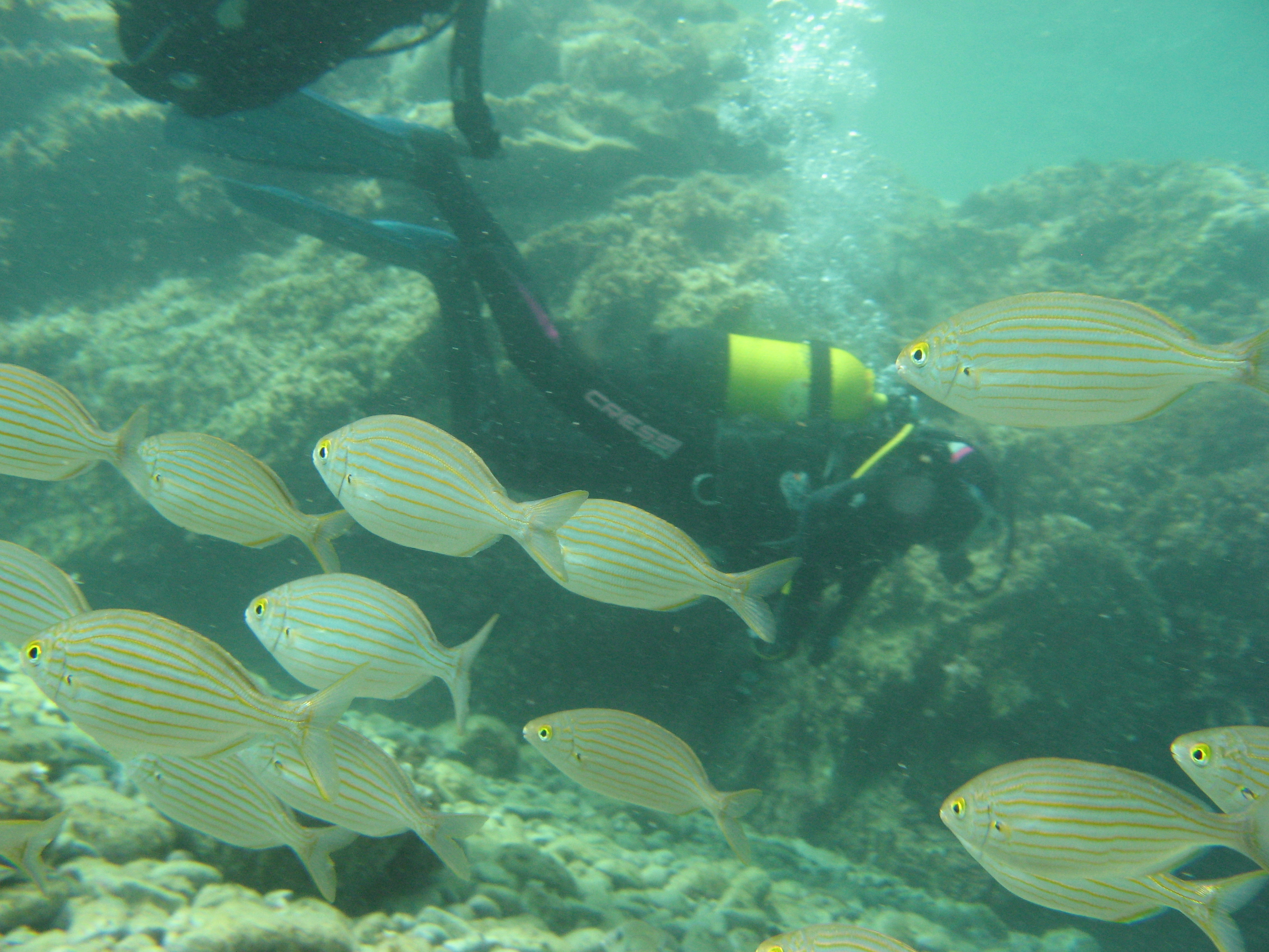 Shoal of salpas.